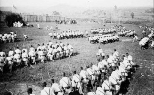 Spanish troops at mass honoring King Alfonso XIII on his birthday. Photo taken in the Maranao Moro town of Momungan (present-day Lanao del Norte Province), Mindanao Island, Philippines.